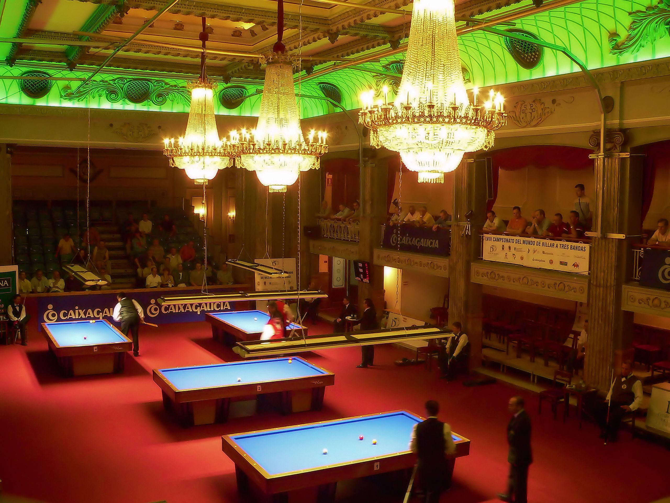 Venue of the 2005 3-Cushion World Championship